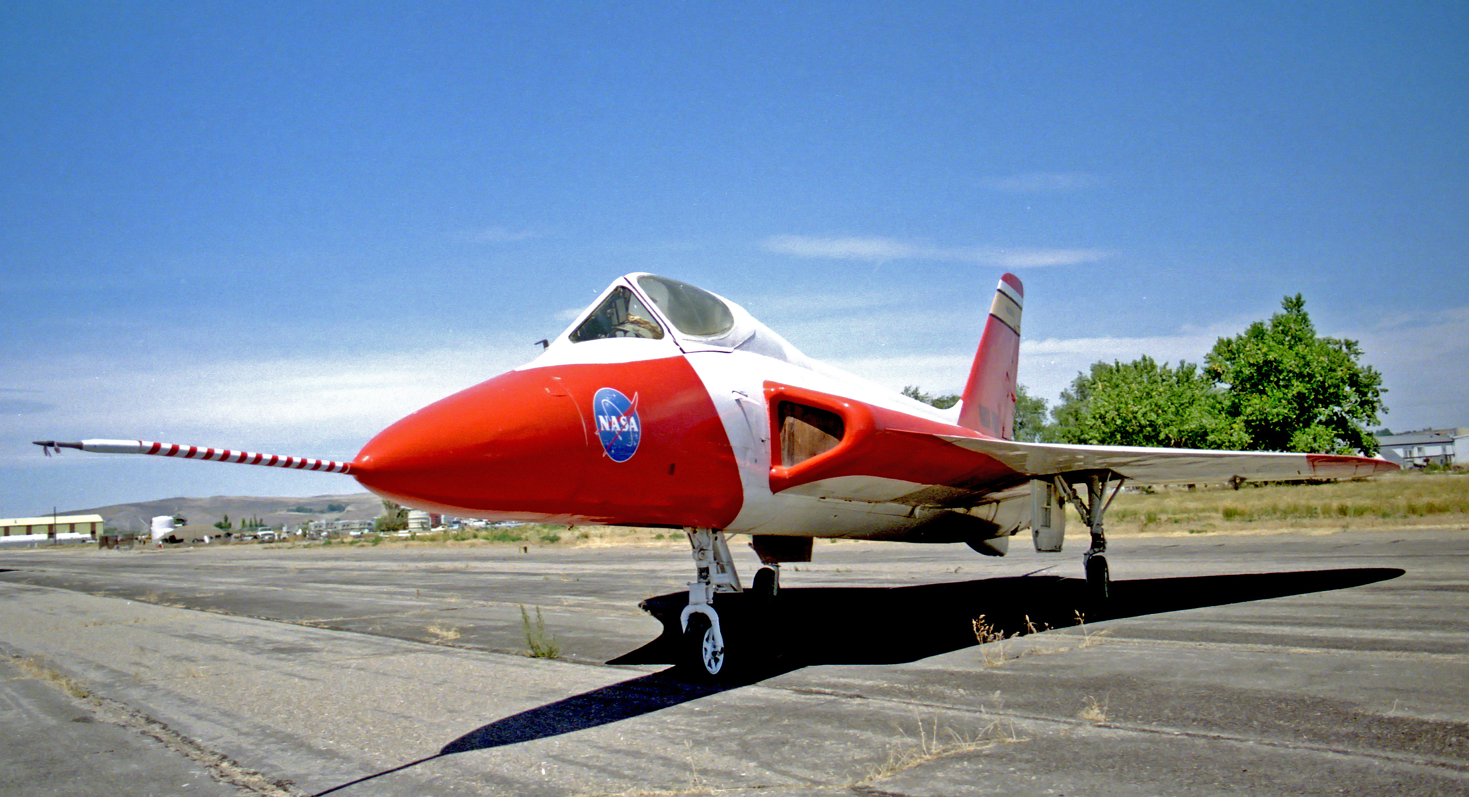 Originally contracted as F4D-2N Skyray for the US Navy (BuNo 139208-c/n 11282). Due to many production changes was re-designated to F5D-1 Skylancer. When contracts cancelled in favor of the Vought F8U Crusader this and one of two prototype aircraft, XF5D-1, (143250-c/n 11593) were later used by NASA for various flight test studies. Plane shown is part of the Merle Maine private collection displayed at Ontario Municipal Airport, Oregon, (KONO/ONO), and as of 2013 is at the Evergreen Air & Space Museum in McMinnville, Oregon. The other Skylancer is displayed at the Neil A. Armstrong Museum in Wapakoneta, Ohio.